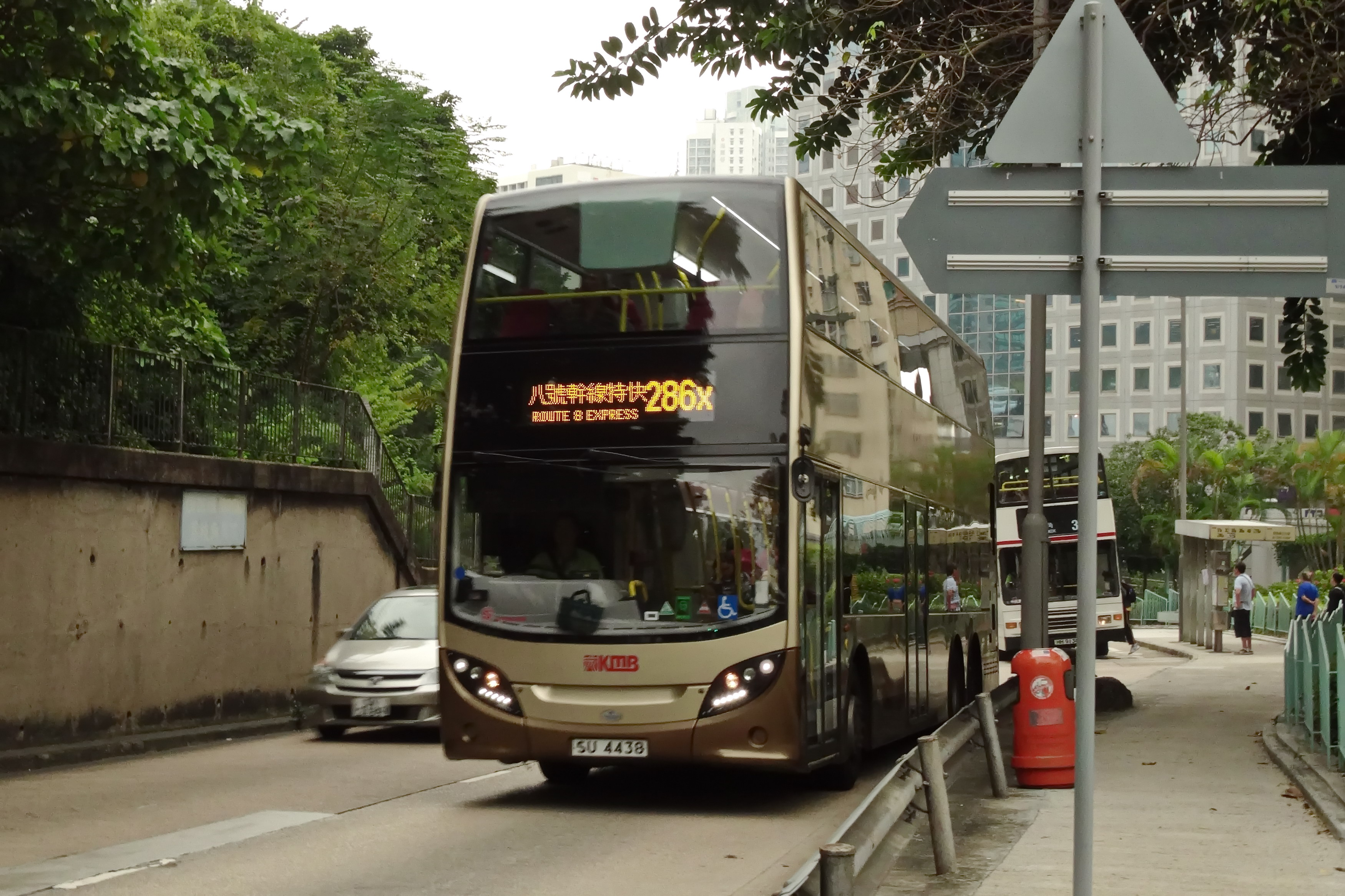 The Kowloon Motor Bus Co. (1933) Ltd Route 286X, Alexander Dennis Enviro 500 at Castle Peak Road near Jao Tsung-I Academy, Hong Kong.